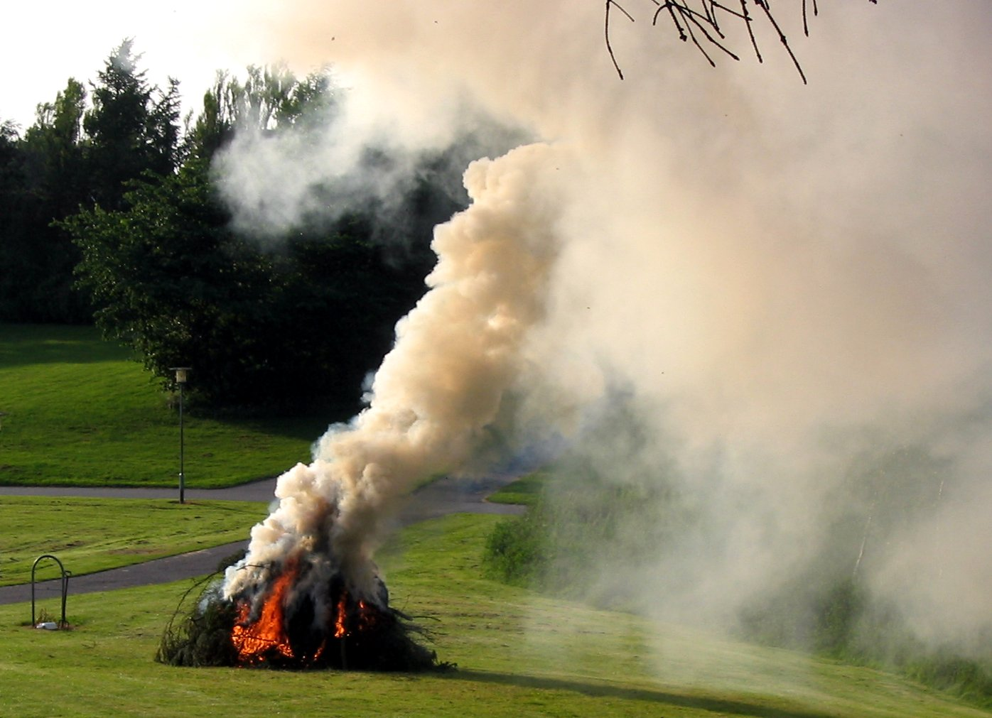 bonfire / smoke